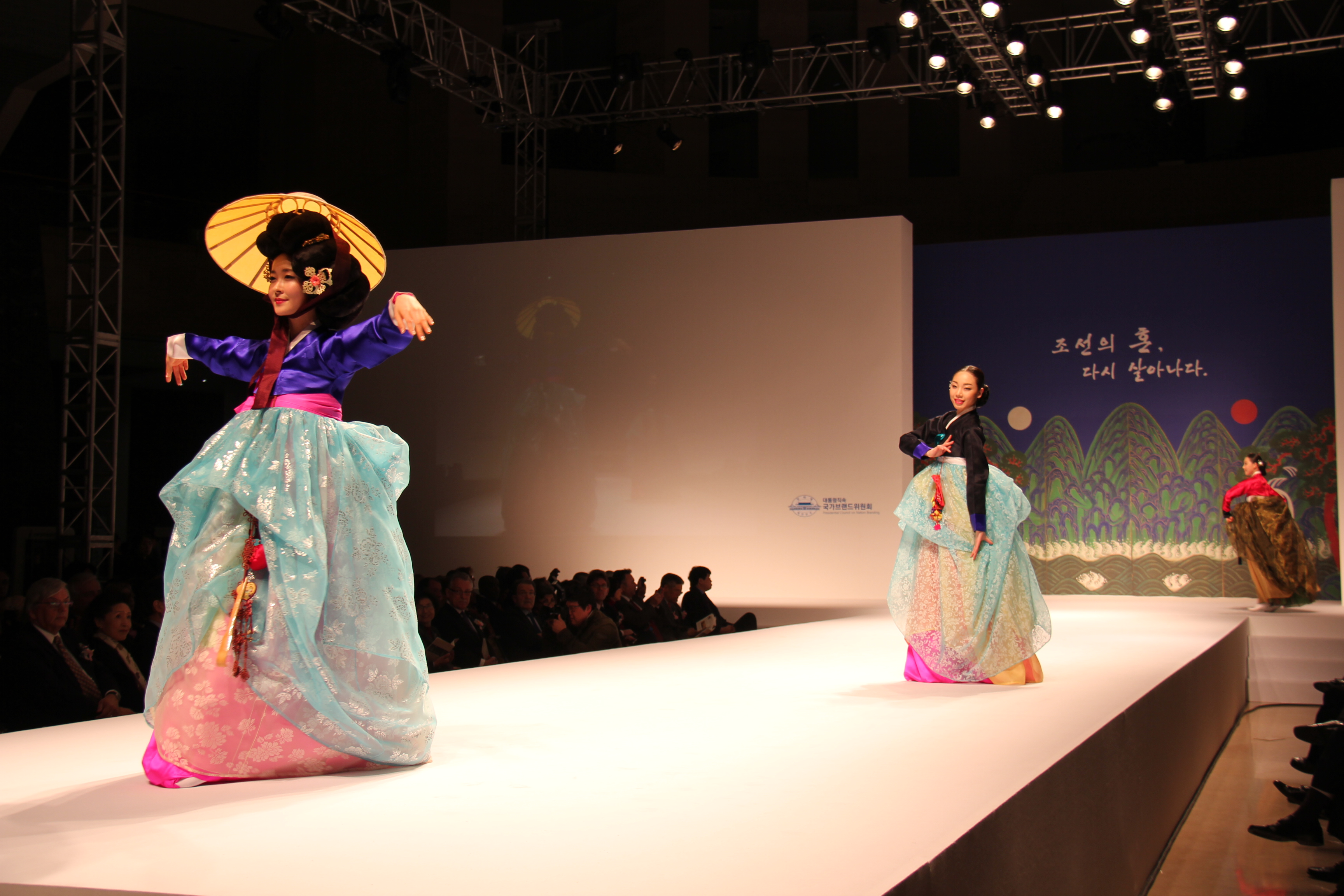 A special performance to showcase Korea's traditional music and dress is being held at the National Museum of Korea.